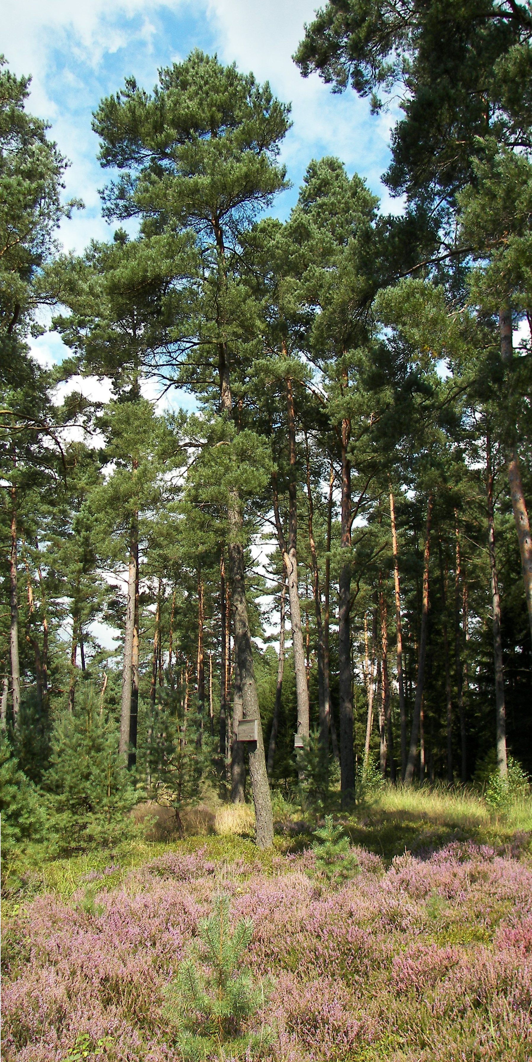 Scots Pine (Pinus sylvestris) and Heather (Calluna vulgaris), Location: Franzosenwiesen in the Burgwald, Hesse, Germany